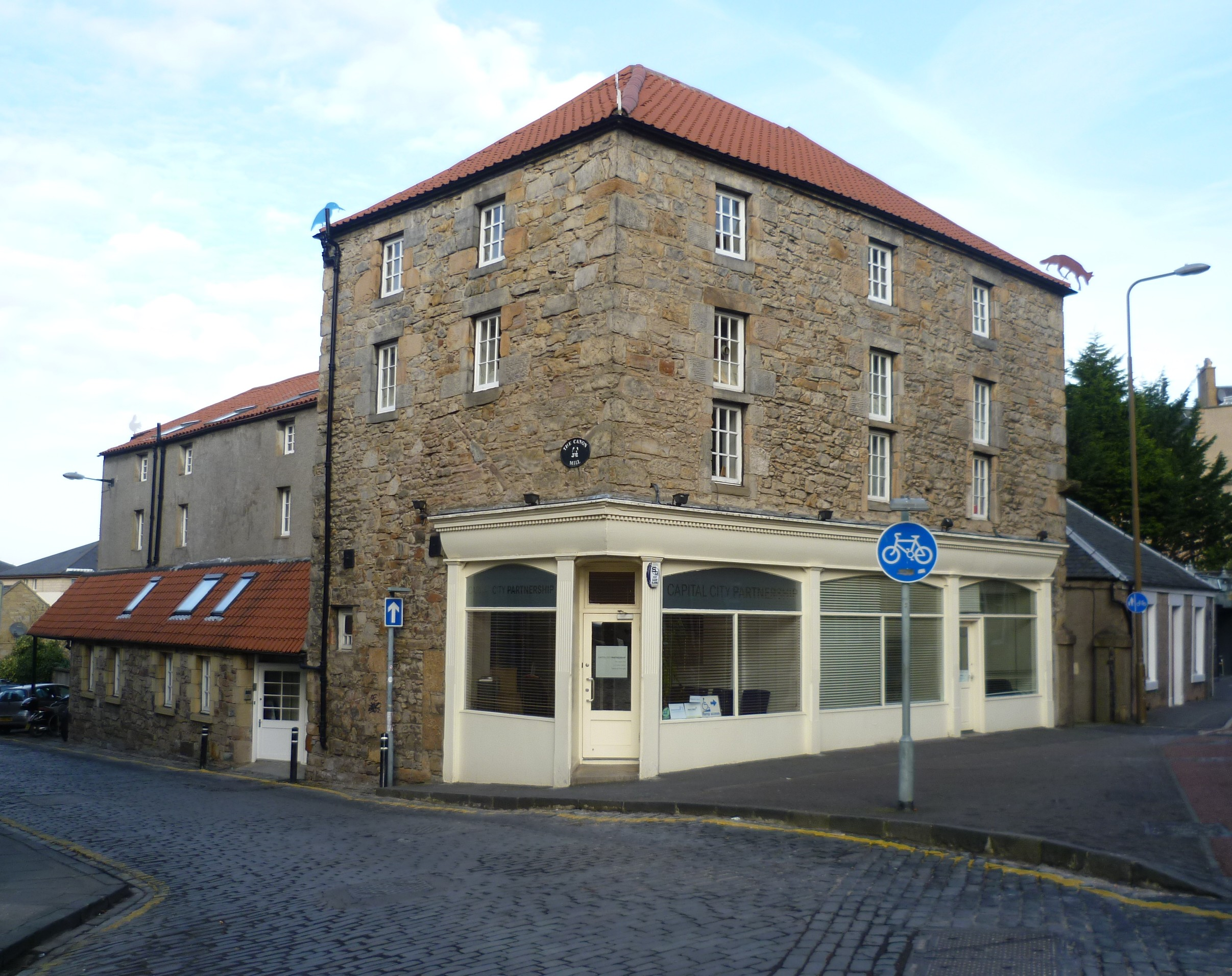 The only surviving mill building at Canonmills on the Water of Leith.